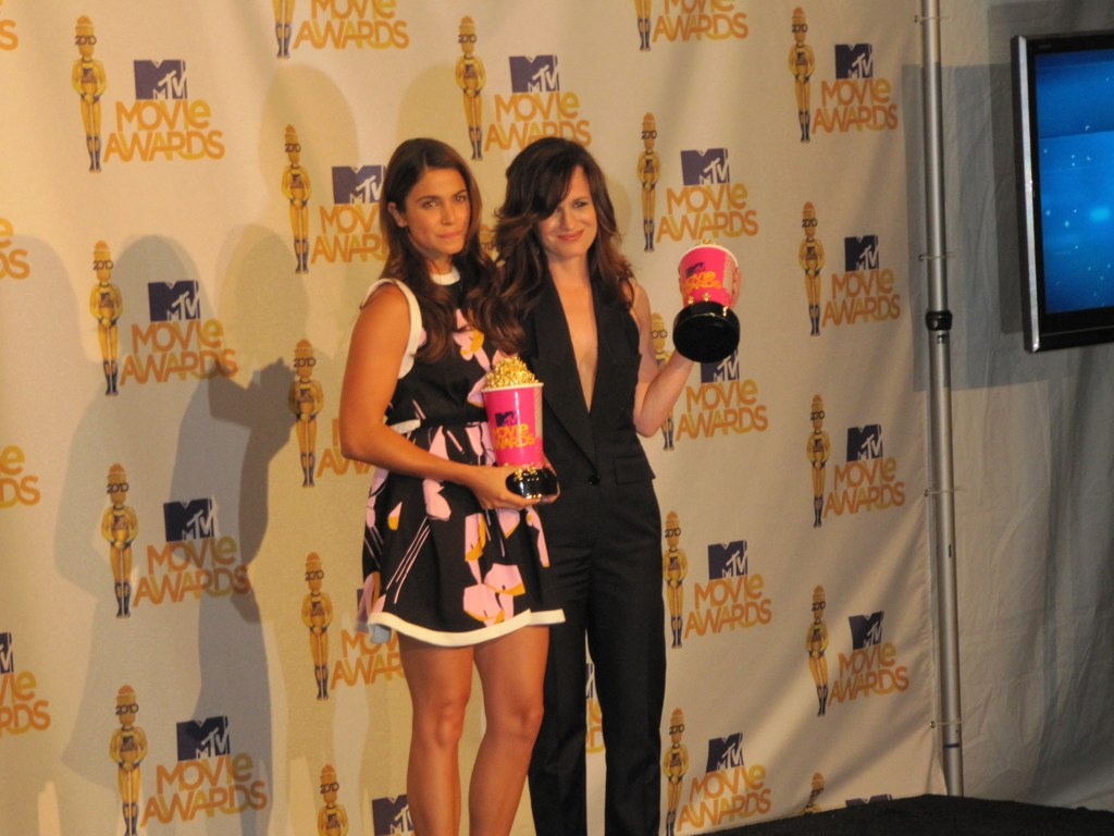 Actresses Nikki Reed and Elizabeth Reaser, star of "Twilight Saga: New Moon" at 2010 MTV Movie Awards.